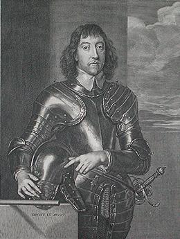 Henry Howard, 22nd Earl of Arundel (1608-1652)